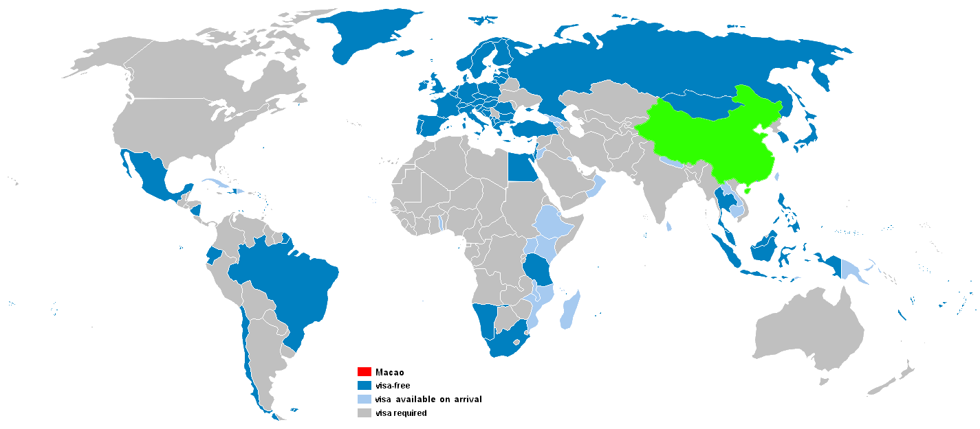 Visa-free & visa-on-arrival countries for holders of Macau SAR passports